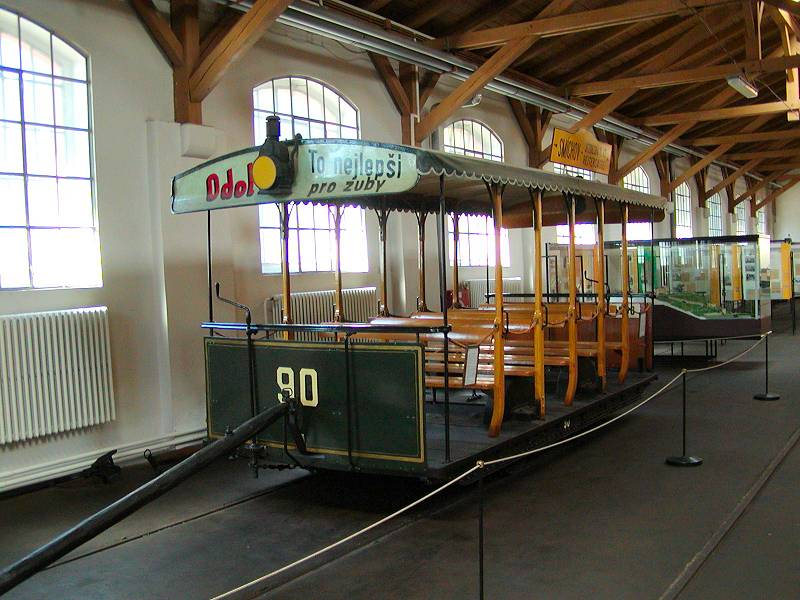 horse tram in museum in Prague